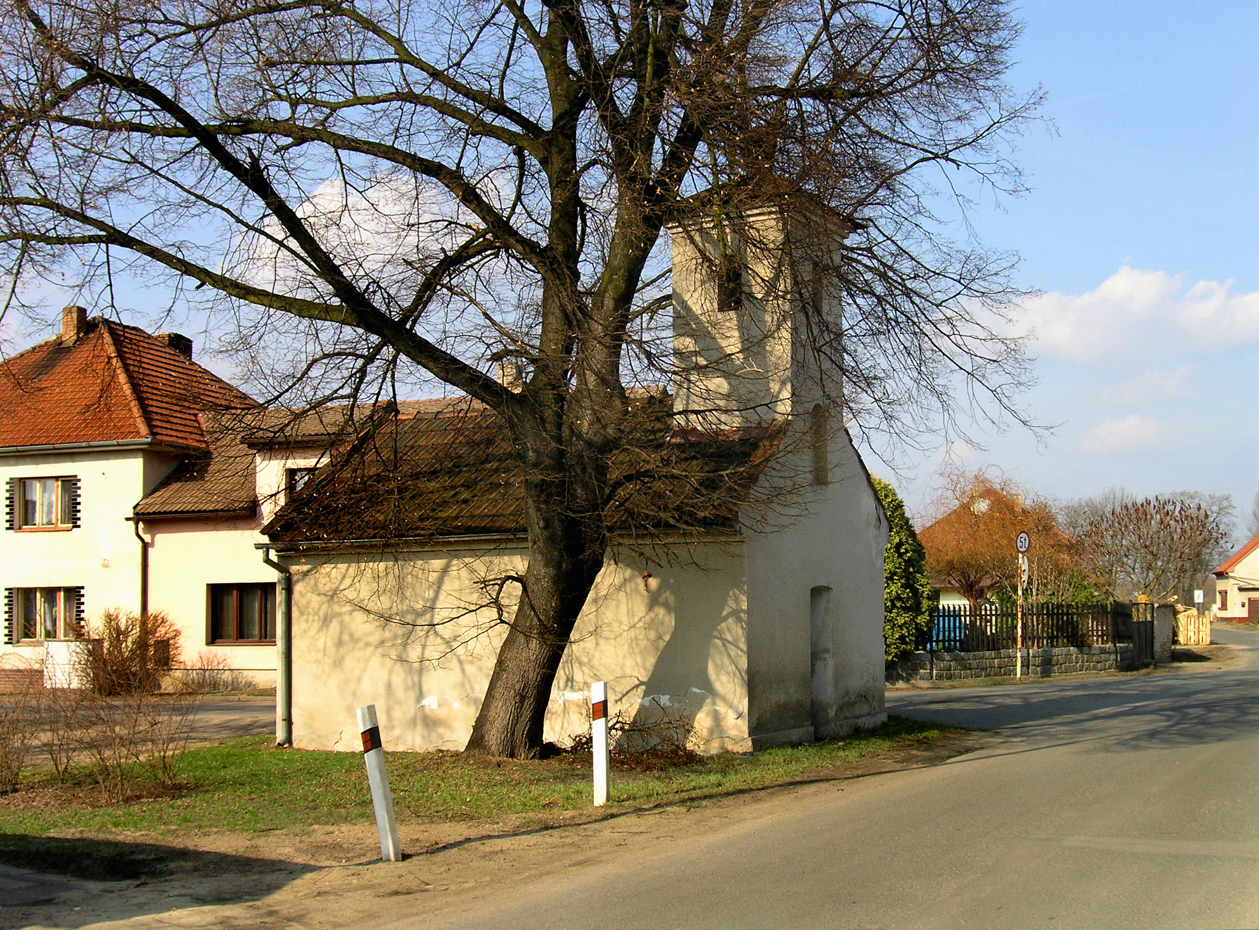 Common in Chrást, part of Tišice village, Czech Republic